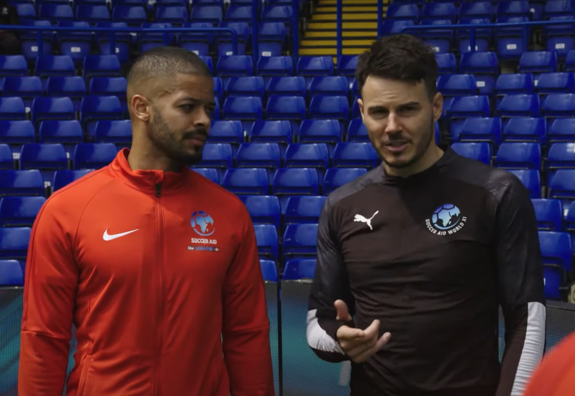 A screenshot from a YouTube video featuring the F2Freestylers in preparation for Soccer Aid 2019.